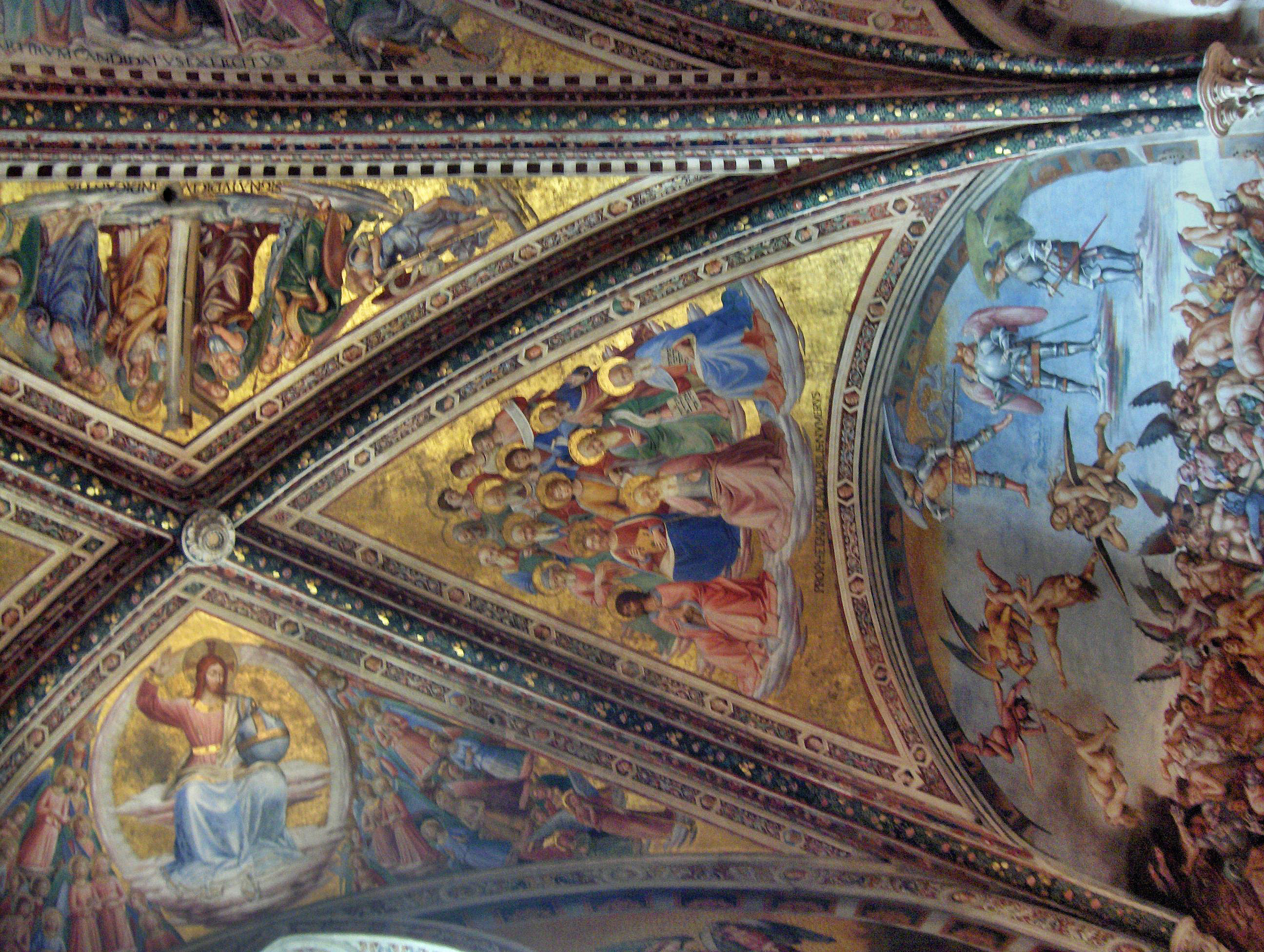 Ceiling : "Christ in Judgment" by Fra Angelico and Benozzo Gozzoli; other frescoes by Luca Signorelli and his school (1499-1504); San Brizio Chapel, Cathedral of Orvieto, Italy